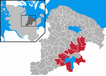 This map shows the area of the Amt (county) Plön-Land in the Kreis (district) Plön, Schleswig-Holstein, Germany.